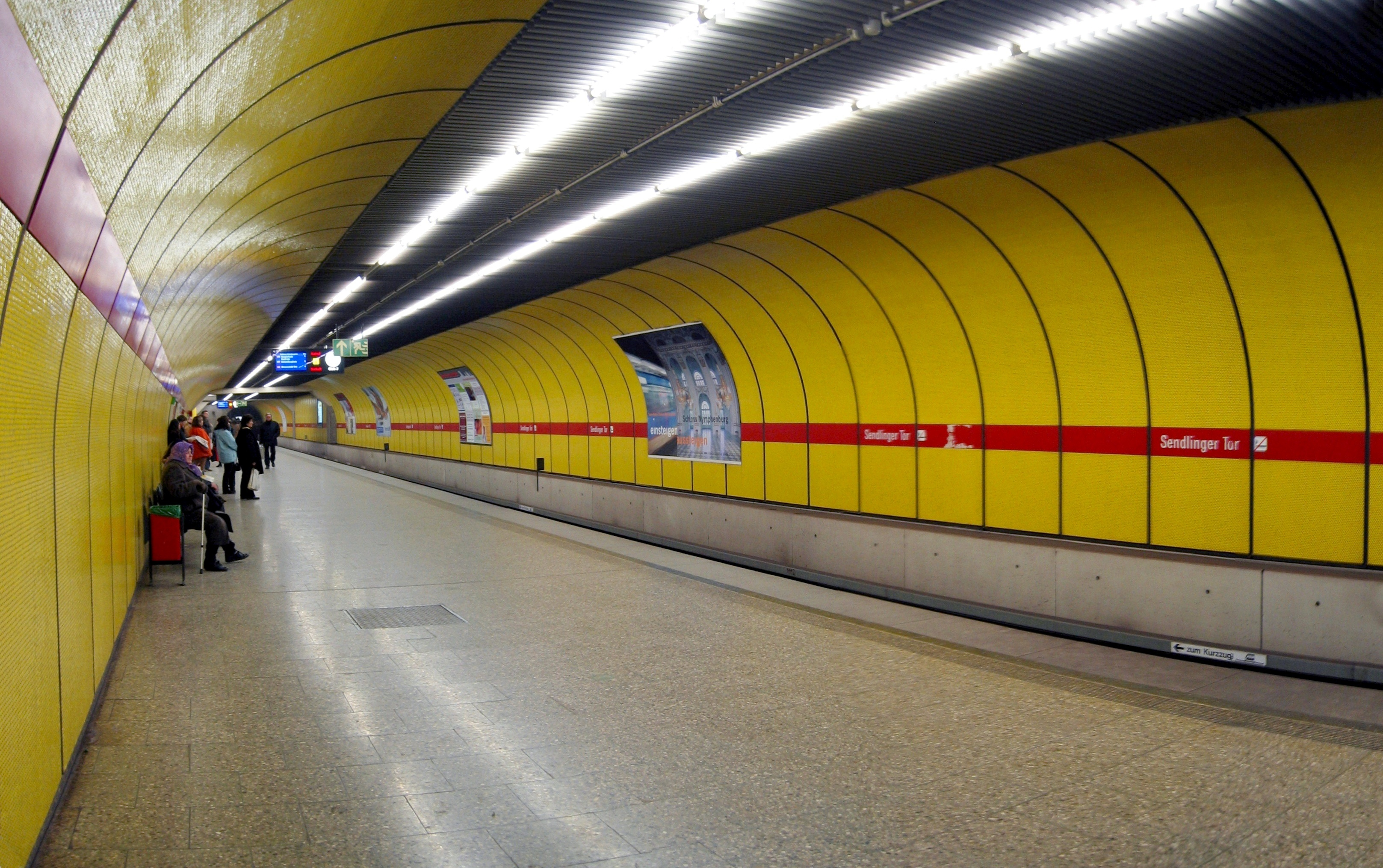 Munich subway station Sendlinger Tor (U1+U2)